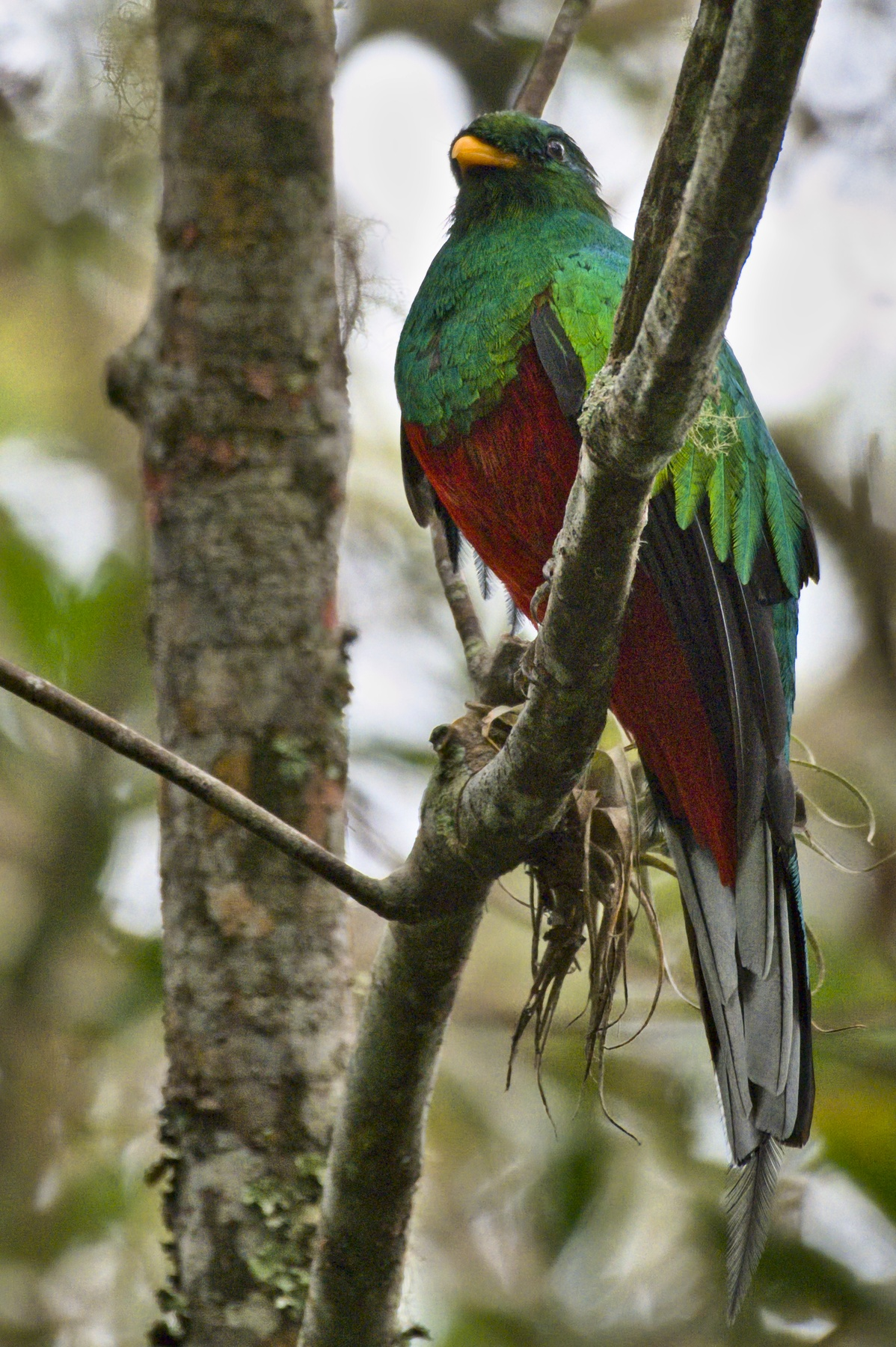 White-tipped Quetzal at Santa Marta El Dorado Lodge